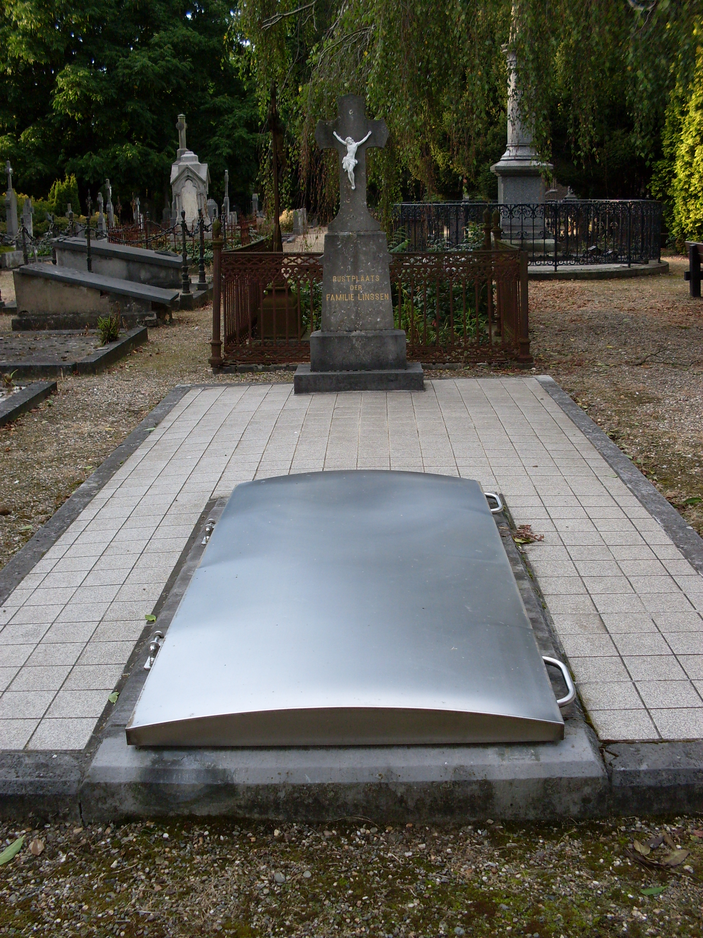 The "Fridge". Family grave of the Linssen family in Roermond